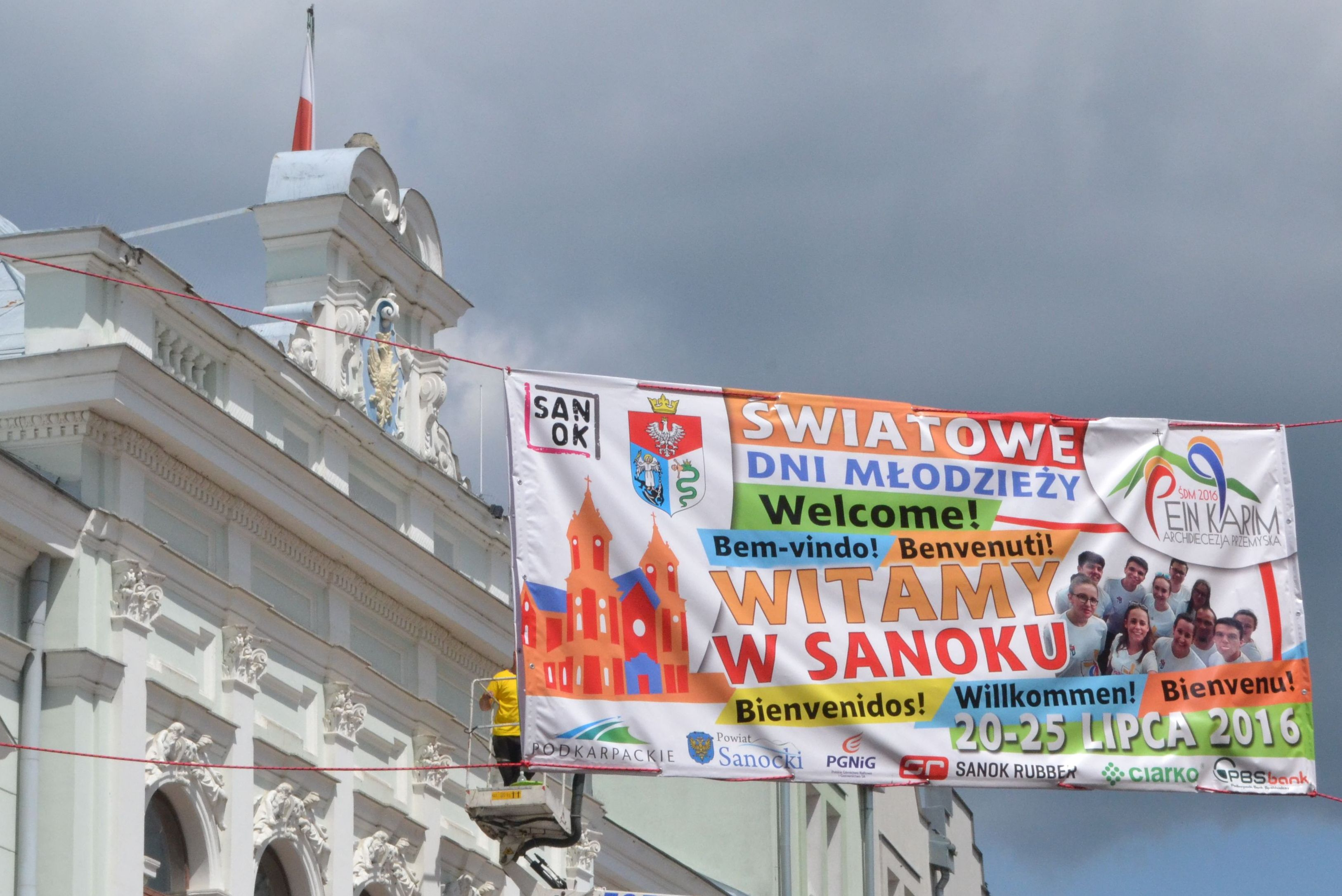 Bunte Banner begrüßen die Pilger, Sanok, Weltjugendtag 2016